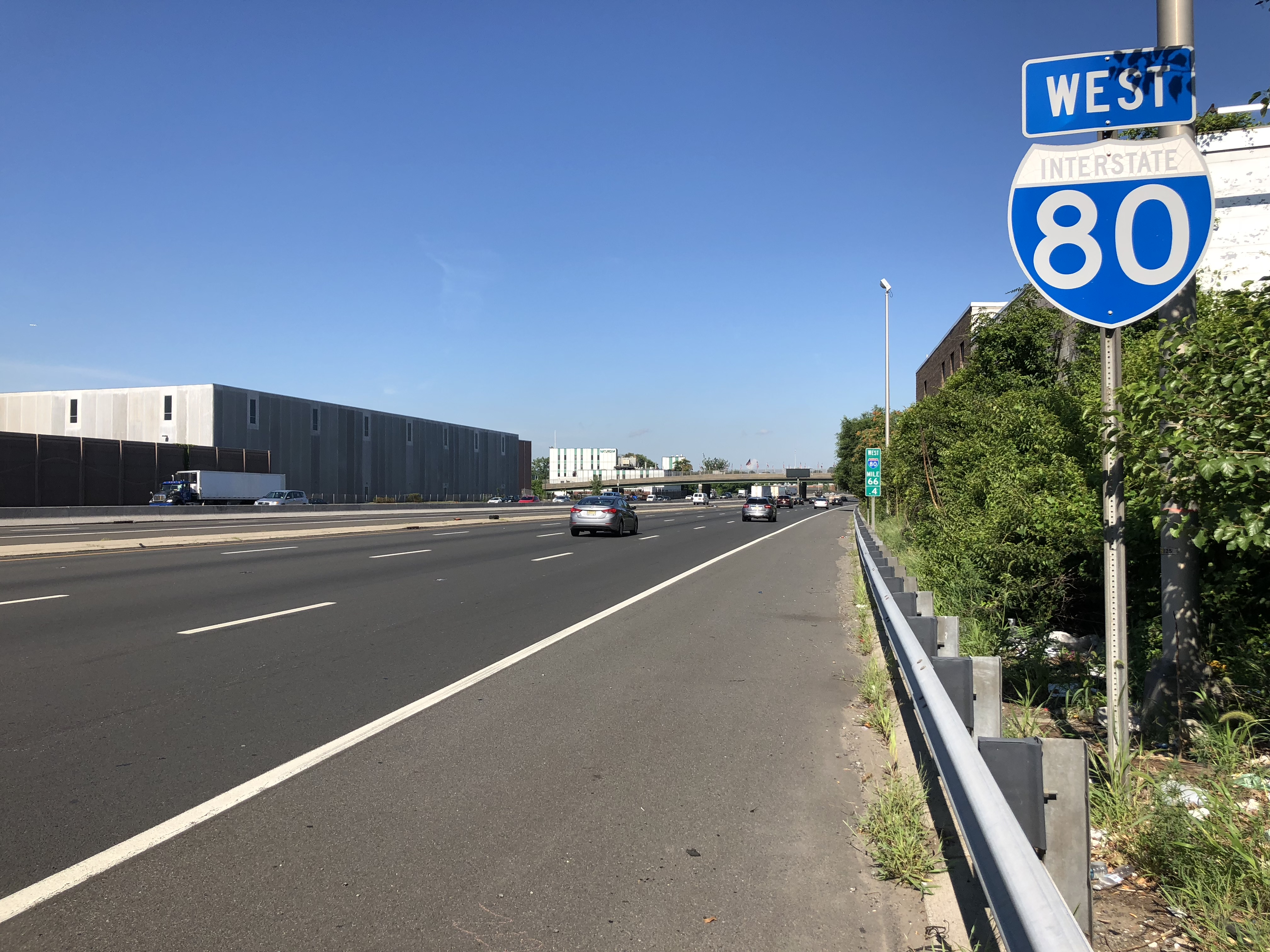 View west along Interstate 80 (Bergen-Passaic Expressway) between Exit 66 and Exit 65 in South Hackensack Township, Bergen County, New Jersey